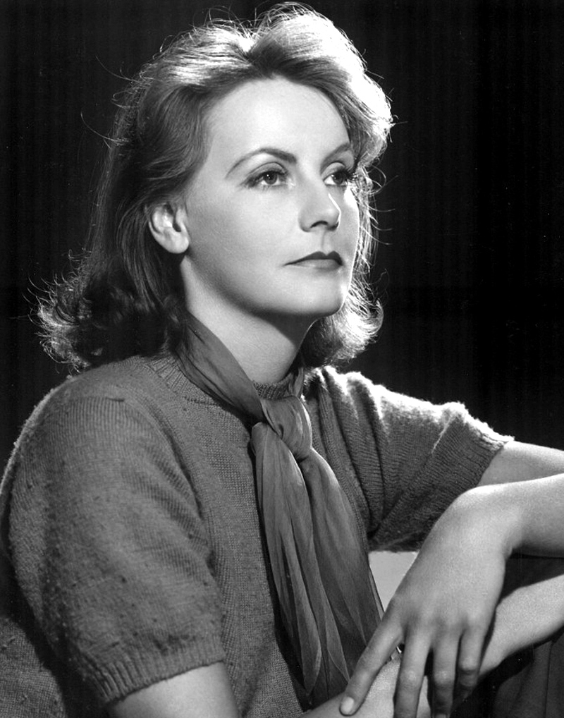 Publicity photo of Greta Garbo for Ninotchka (1939).